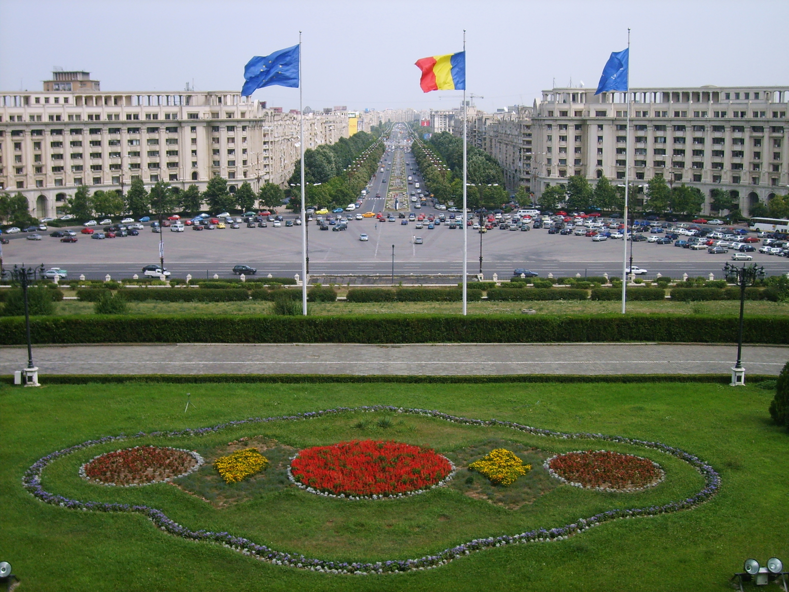 View from the balcony in the Parliament Palace in Bucarest